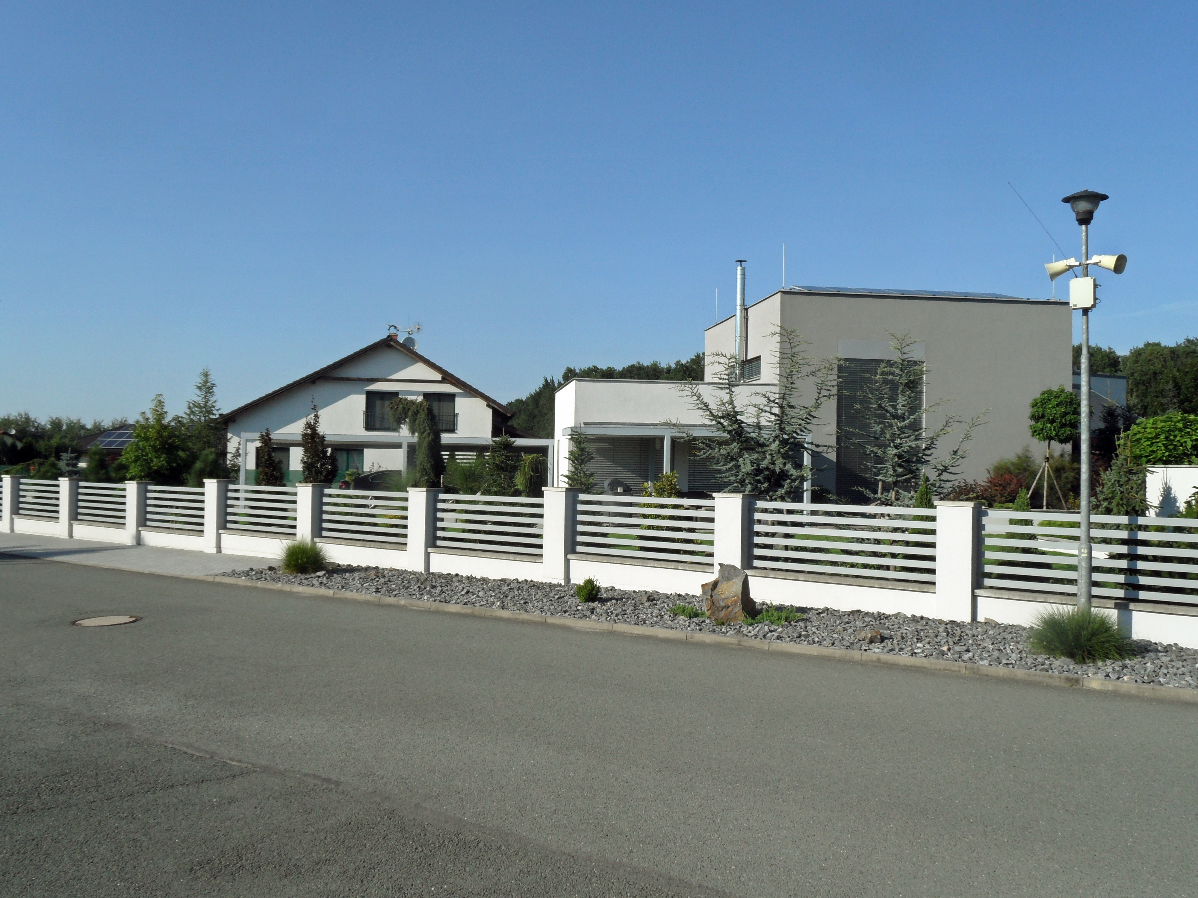 Pod Dubem: Houses in the main street. Pardubice District, the Czech Republic.